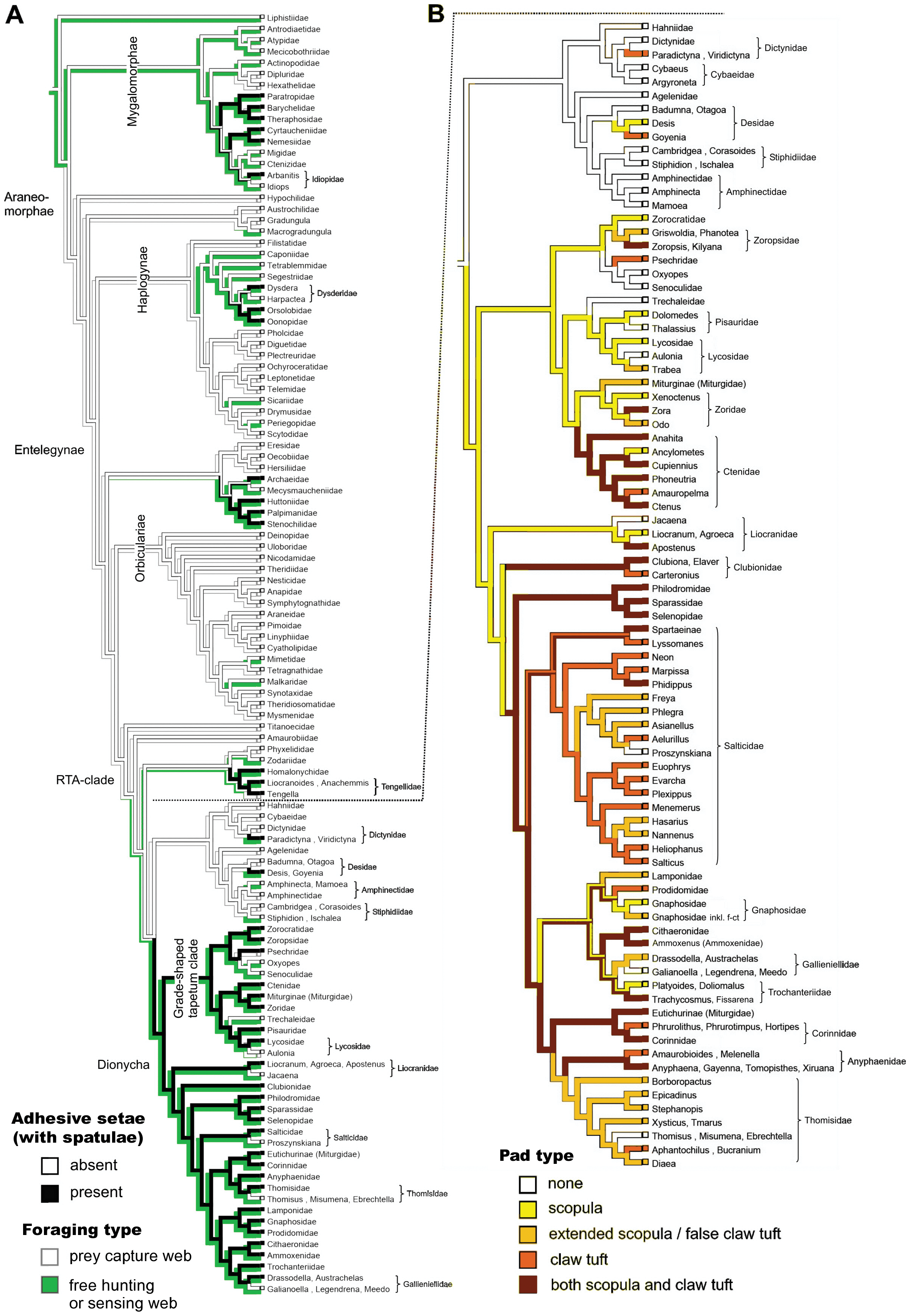 A. Phylogenetic relationships among the Araneae, adapted from the most recent literature survey (see [30] for details), and the distribution of adhesive (spatulae-bearing) setal pads and web abandoning. Character traces follow the Ancestral State Reconstruction performed with the Mesquite software. B. Combined character traces of pad type distribution in the RTA-clade. The model clearly suggests an early origin of scopulae and the derived state of claw tufts.